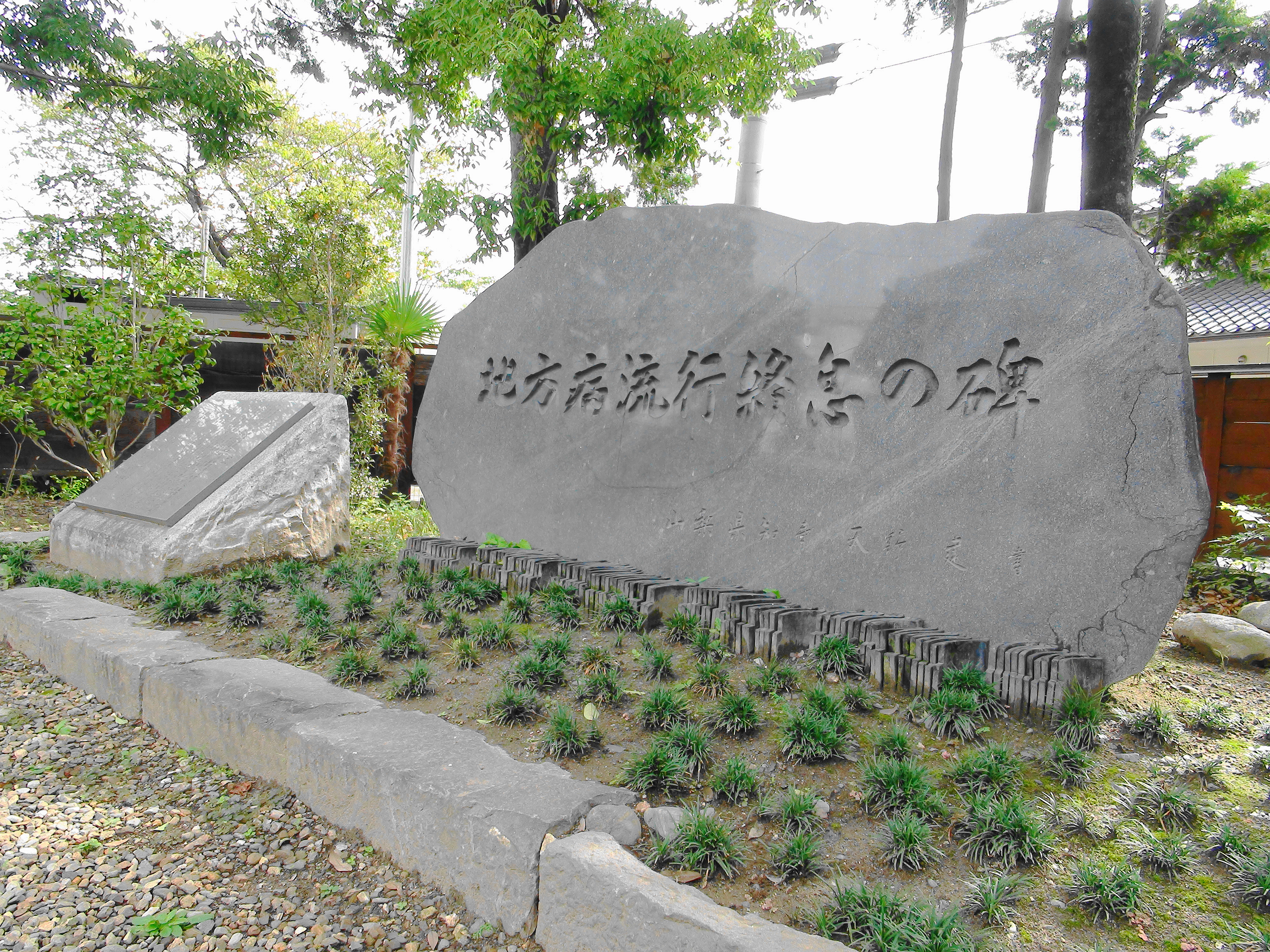 Monument of Schistosoma japonicum disease end